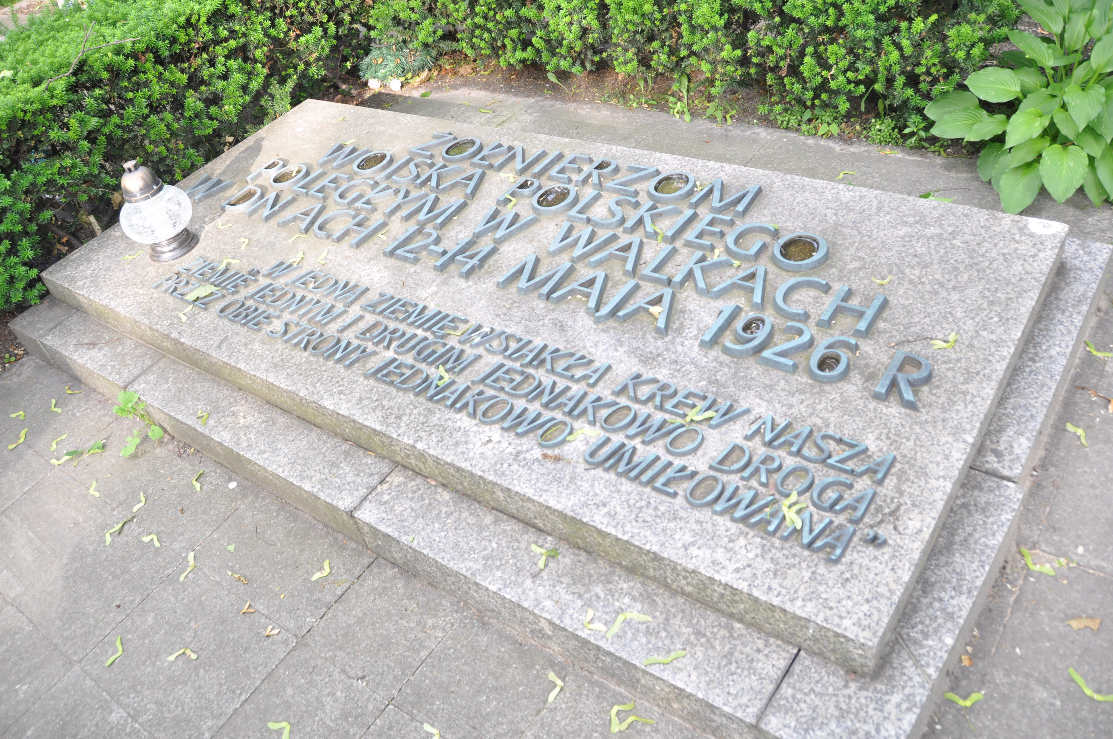 May coup dead soldiers memorial plaque - Powązki Military Cemetery in Warsaw.